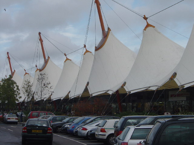 Ashford Outlet Village. This shopping centre is just outside of Ashford near the International Rail terminal.